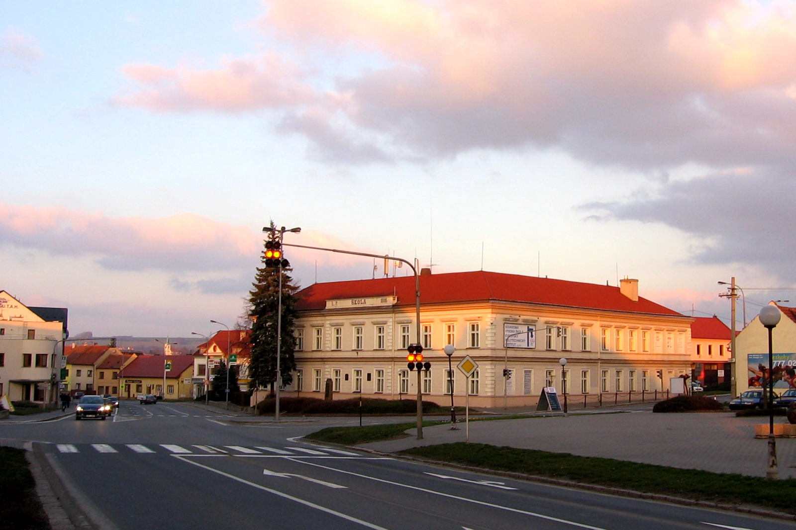 Former elementary school built in 1886 (presently European Polytechnical Institute) on square in Kunovice